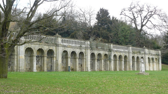 Terrace, Crystal Palace Park The eastern end of the terraces of the former Crystal Palace.